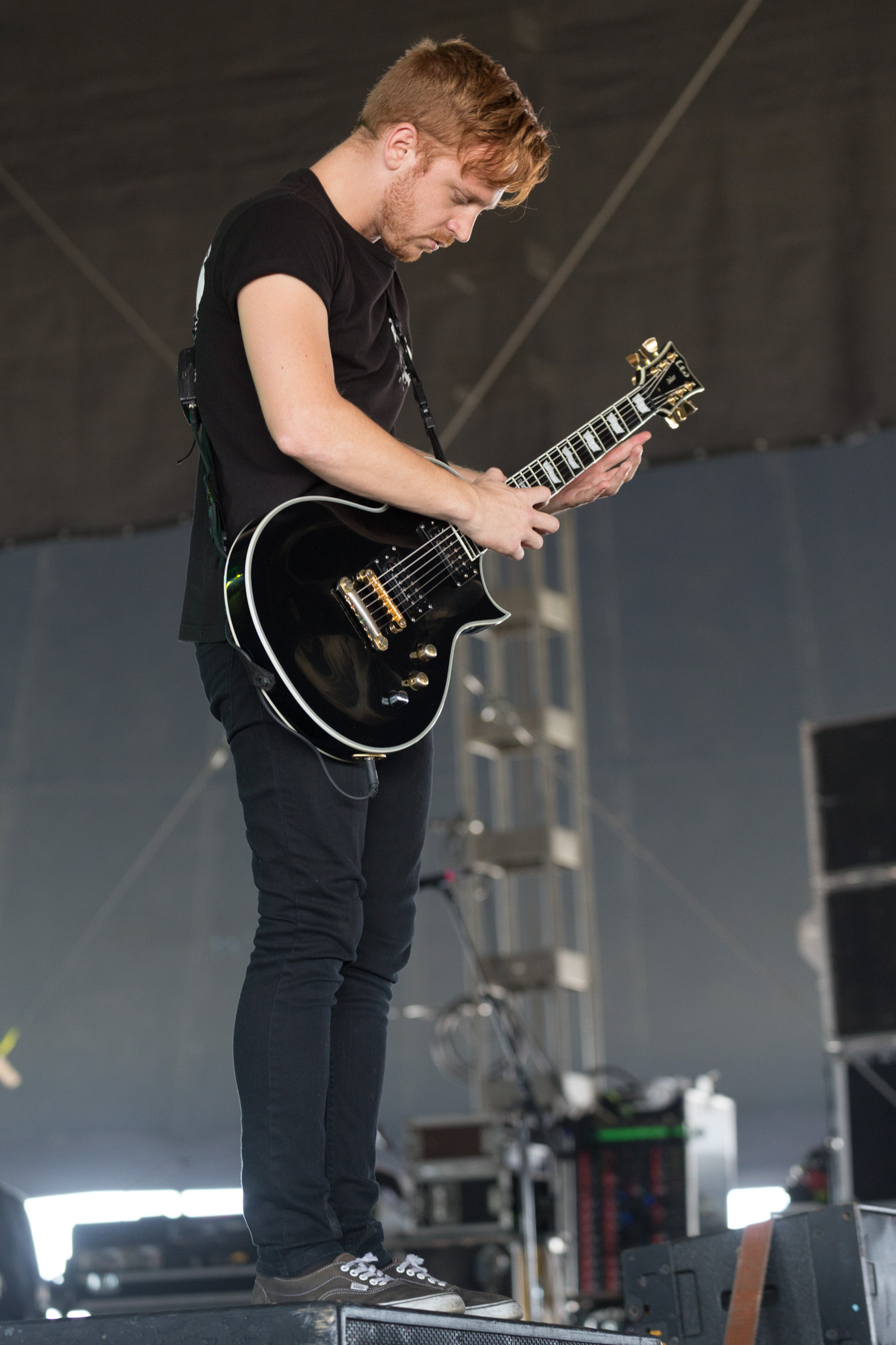 Blessthefall playing on the With Full Force Festival, July 2014